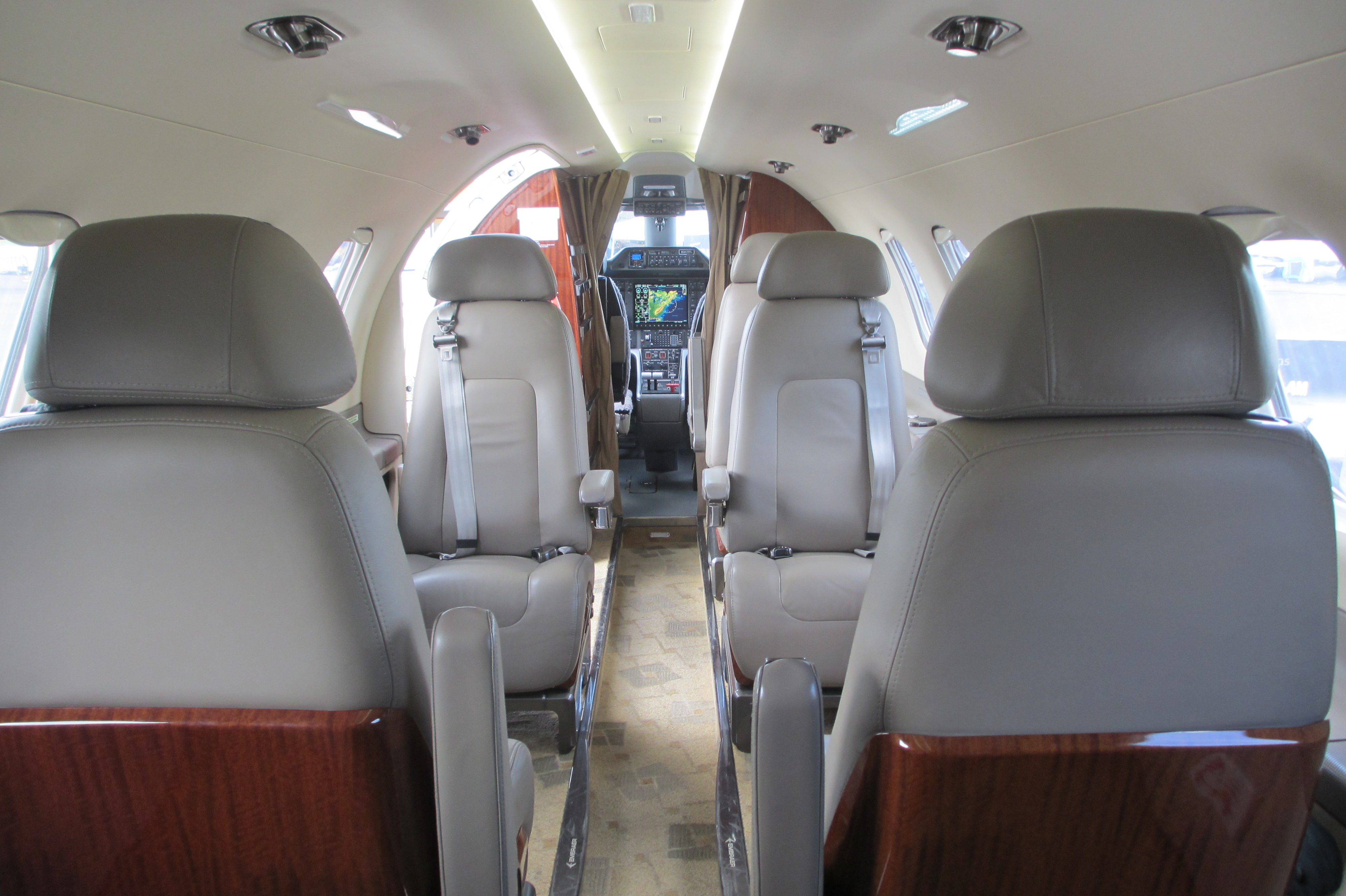 Embraer Phenom 300 cabin interior forward view. EMB-505 light jet.